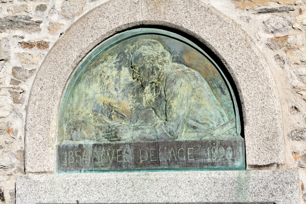 Sculpture of Yves Delage in the garden of the Station biologique de Roscoff, Finistère, France